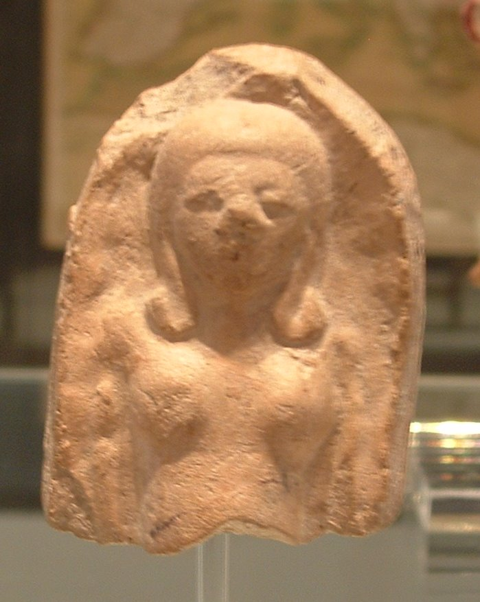 Israeli National Maritime Museum- Exhibitions המוזיאון הימי הלאומי - פריטים מהתצוגה This image was taken as part of the Elef Millim project trip and within the Wikipedia Loves Art project to the National Maritime Museum in Haifa in the northern part of Israel, which was held on Friday, 22nd January 2010. To view all images uploaded as pary of the Elef Millim Project This image was given with courtesy of Israel Antiquities Authority To view all images uploaded as courtesy of the Israel Antiquities Authority asterte pottery, late bronze age II 14th-13th centurie BCE from Tel Abu Hawam - Haifa Israel צלמית של עשתרת עשויה מחרס מתקופת הברונזה המאוחרת 2 מהמאות 14-13 לפנה"ס. נמצאה בתל- אבו הואם ליד חיפה ישראל